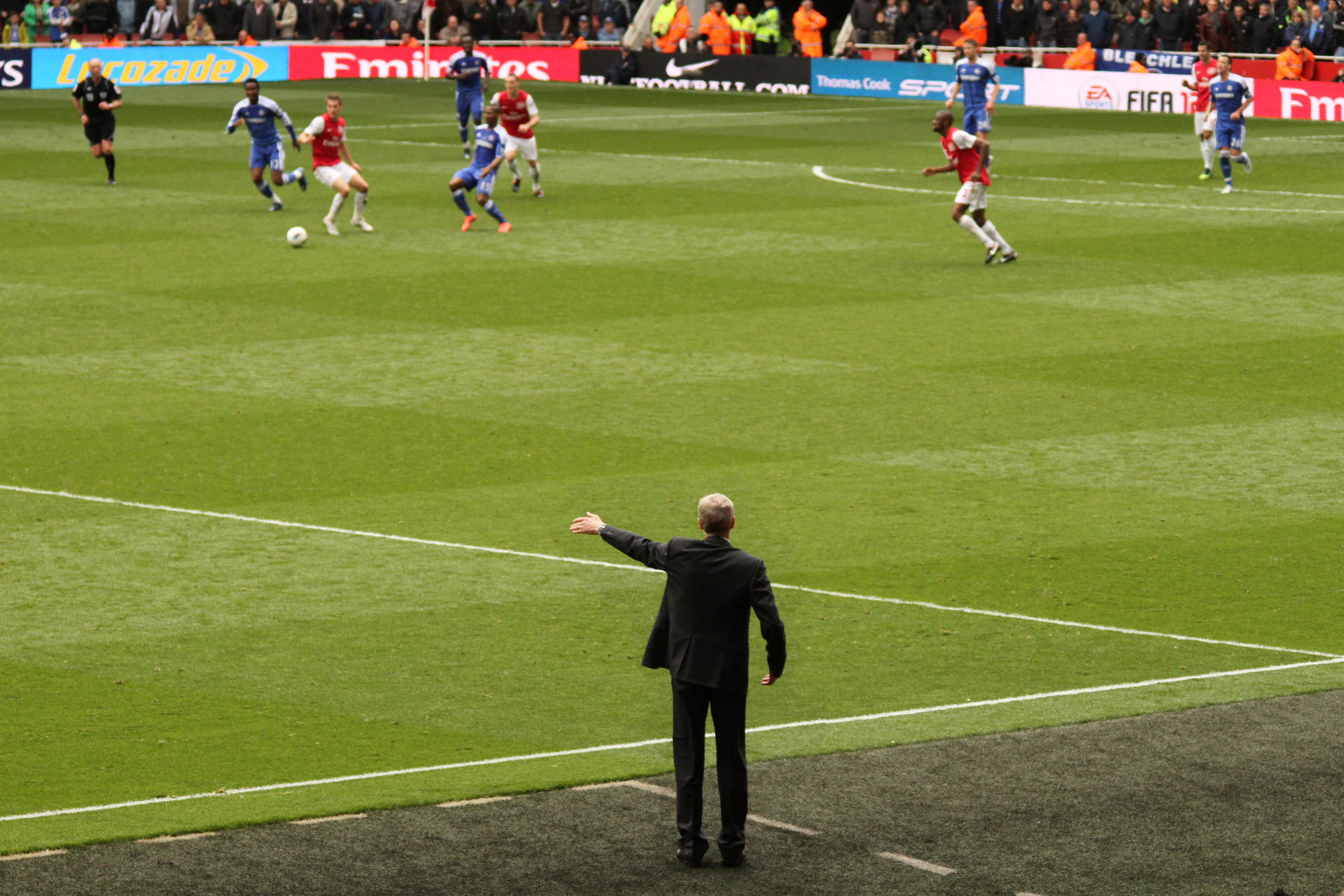 Arsene Wenger directs the troops